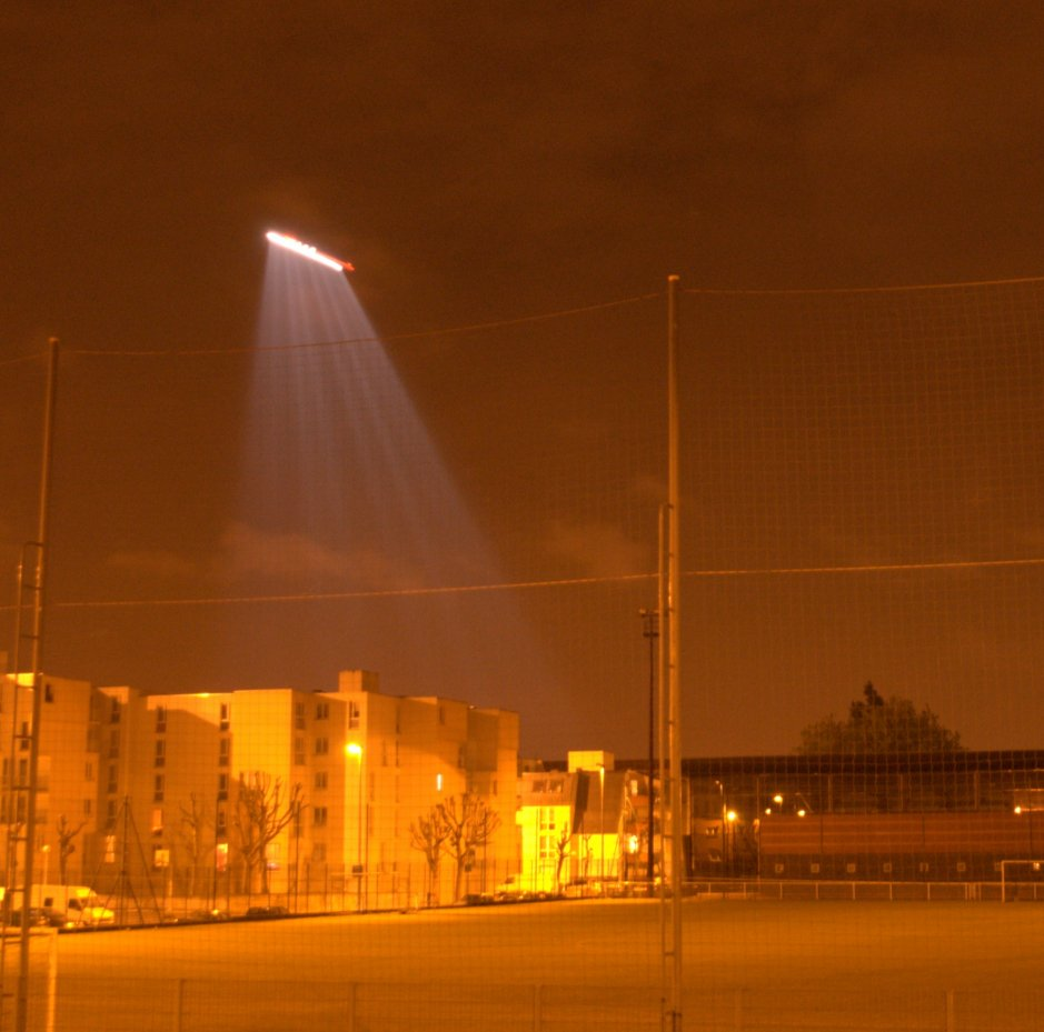 Helicopters watching for possible rioting or protests following the 2007 presidential election in Lille, France; the helicopter is equipped with a powerful light, which is seen as a line because of the long exposure time of this photo.